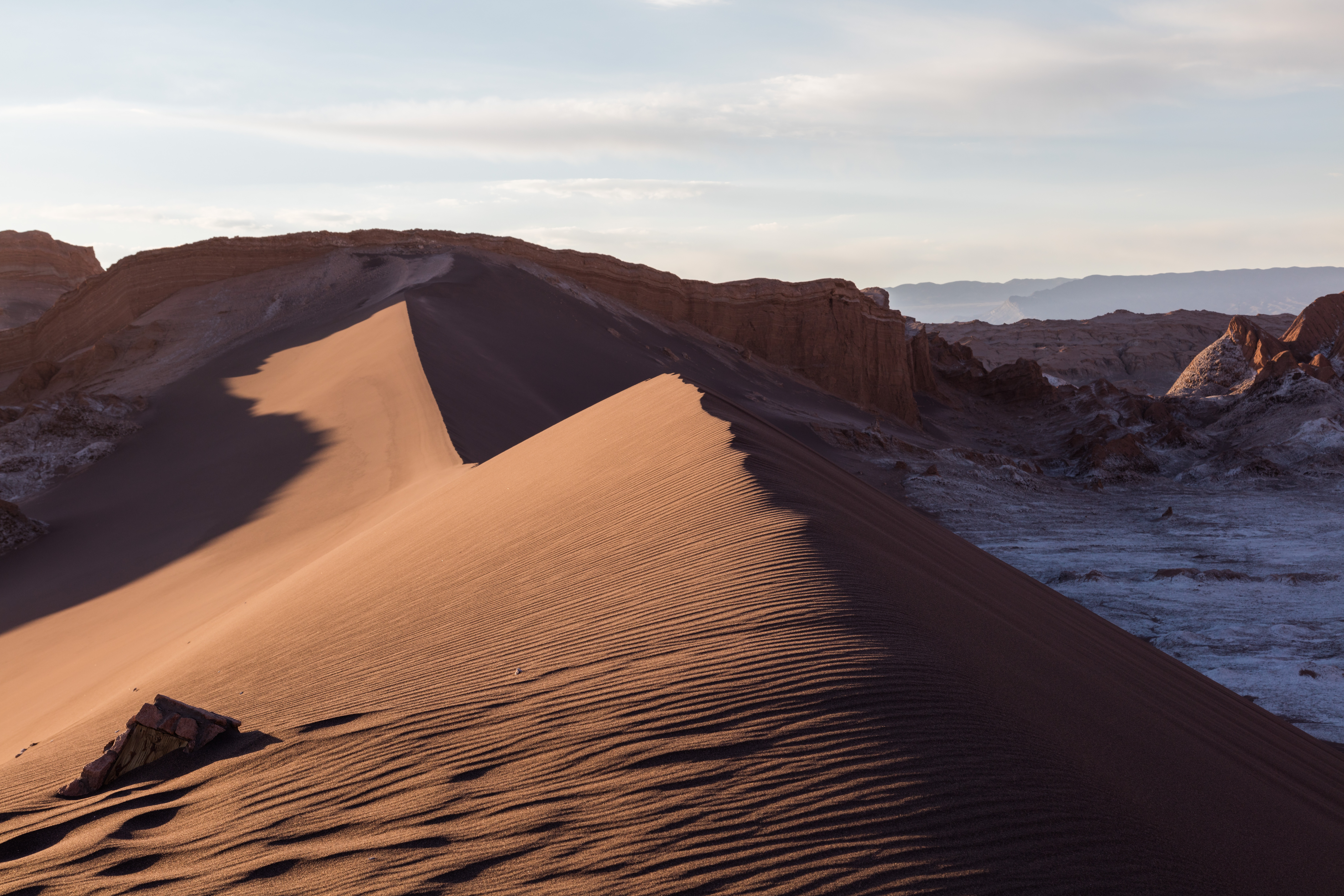 Duna Mayor, Valle de la Luna, San Pedro de Atacama, Chile